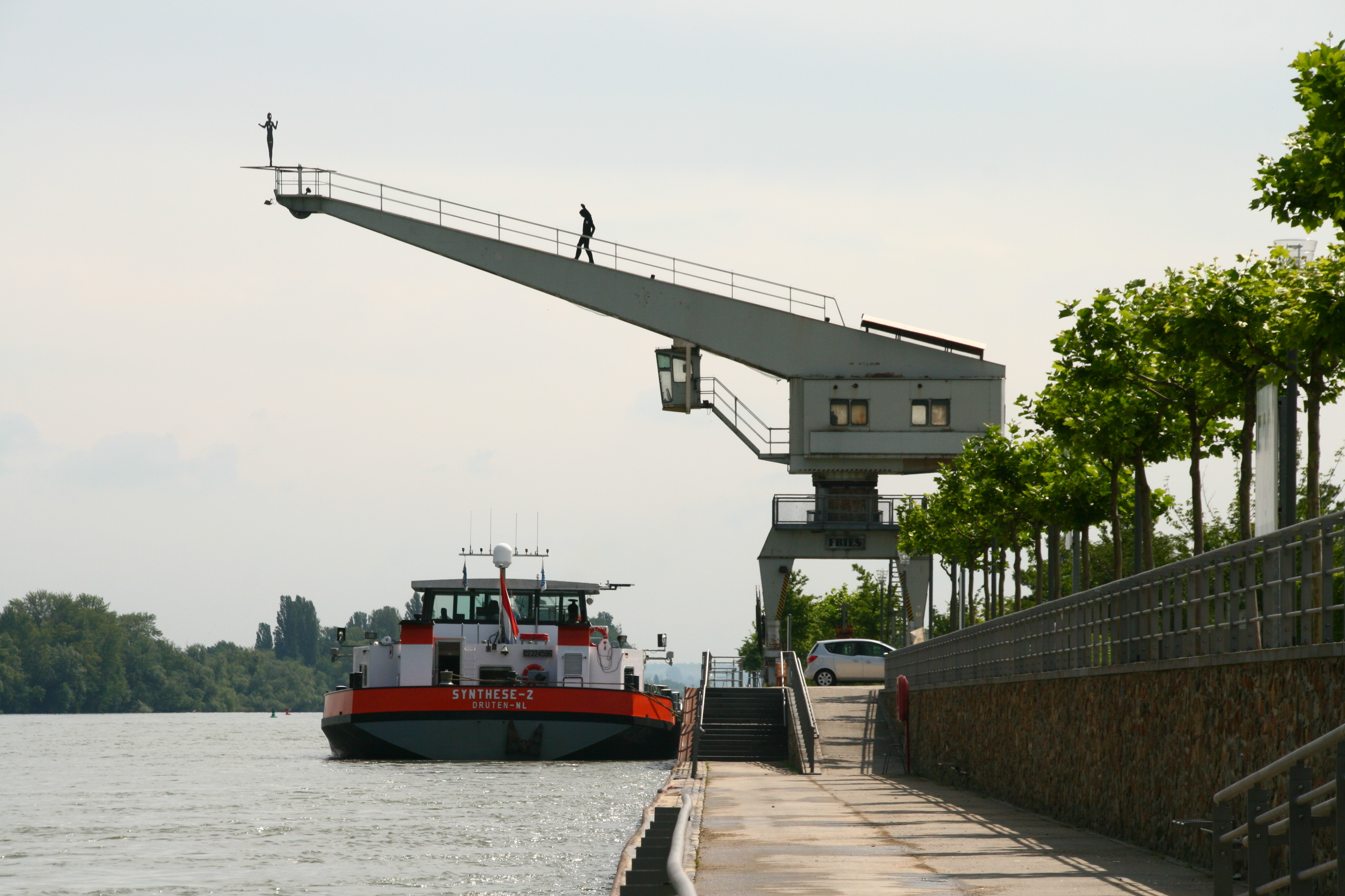 Former Raab Karcher-crane from manufacturer J.S. Fries Sohn (1964) and motor ship "Synthese-2". The crane is today an industrial monument. Bingen am Rhein, Rhineland-Palatinate, Germany